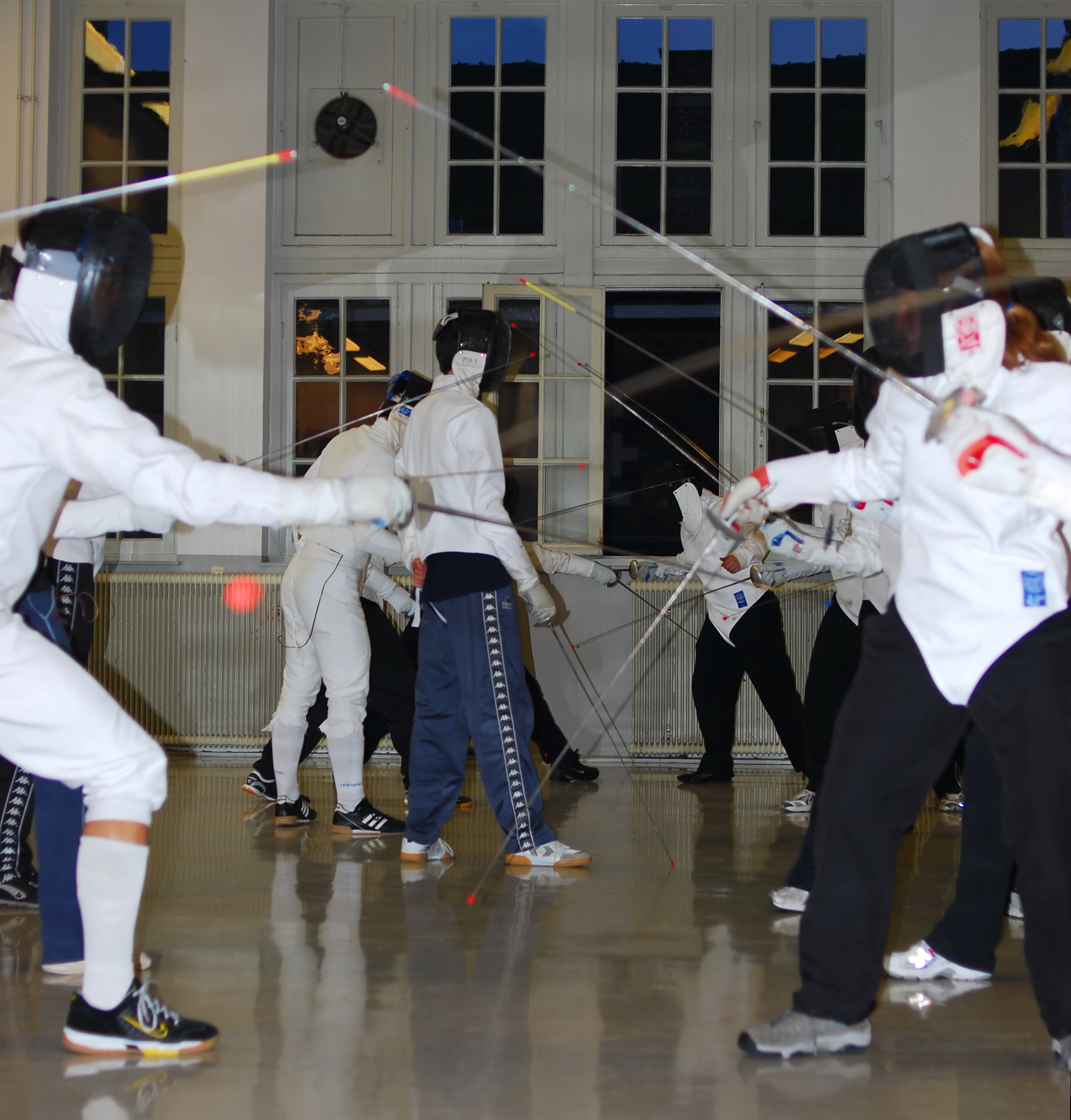 Members of student fencing club MAS Incontro engaged in a training exercise.